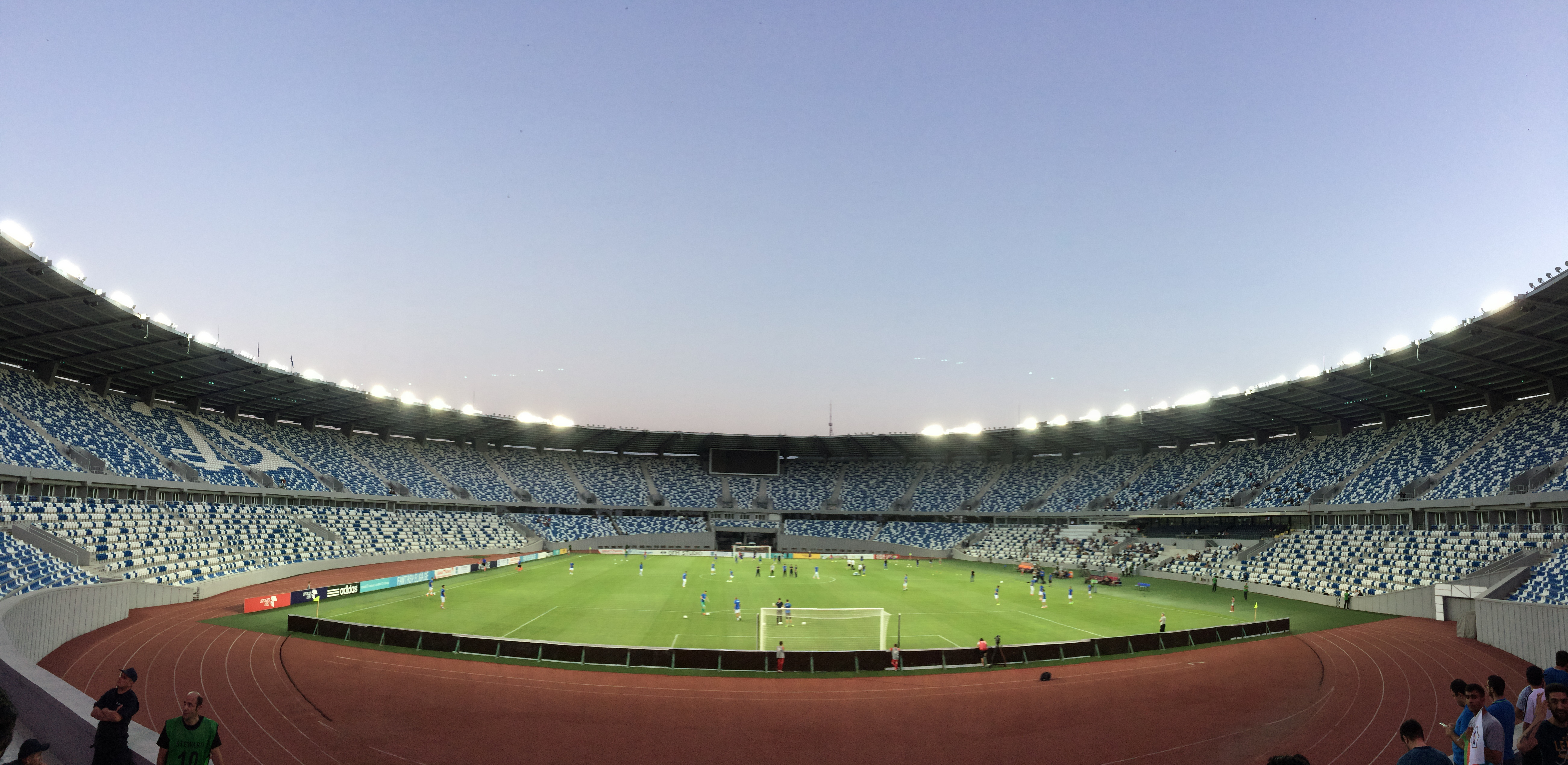 Boris Paichadze Dinamo Arena, UEFA Champions League II qualification round, Samtredia - Garabagh, July 18, 2017